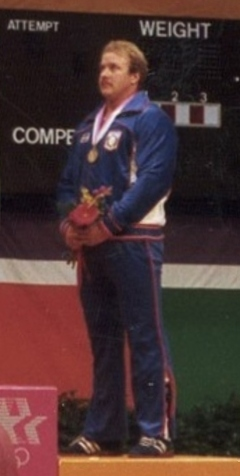 110 kg weightlifting podium at the 1984 Olympics